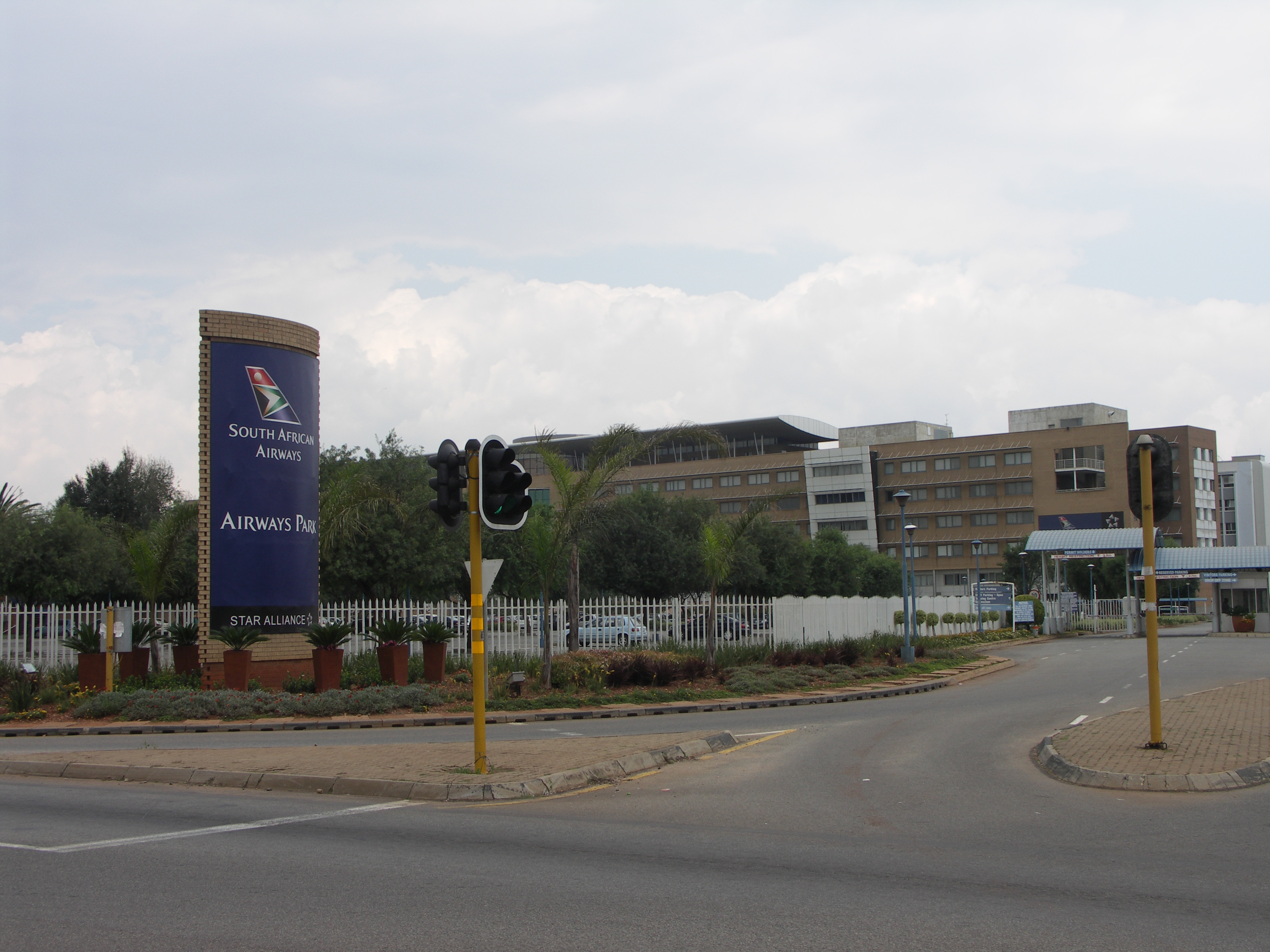 Airways Park, the head office of South African Airways - Jones Street, Kempton Park, Gauteng, South Africa